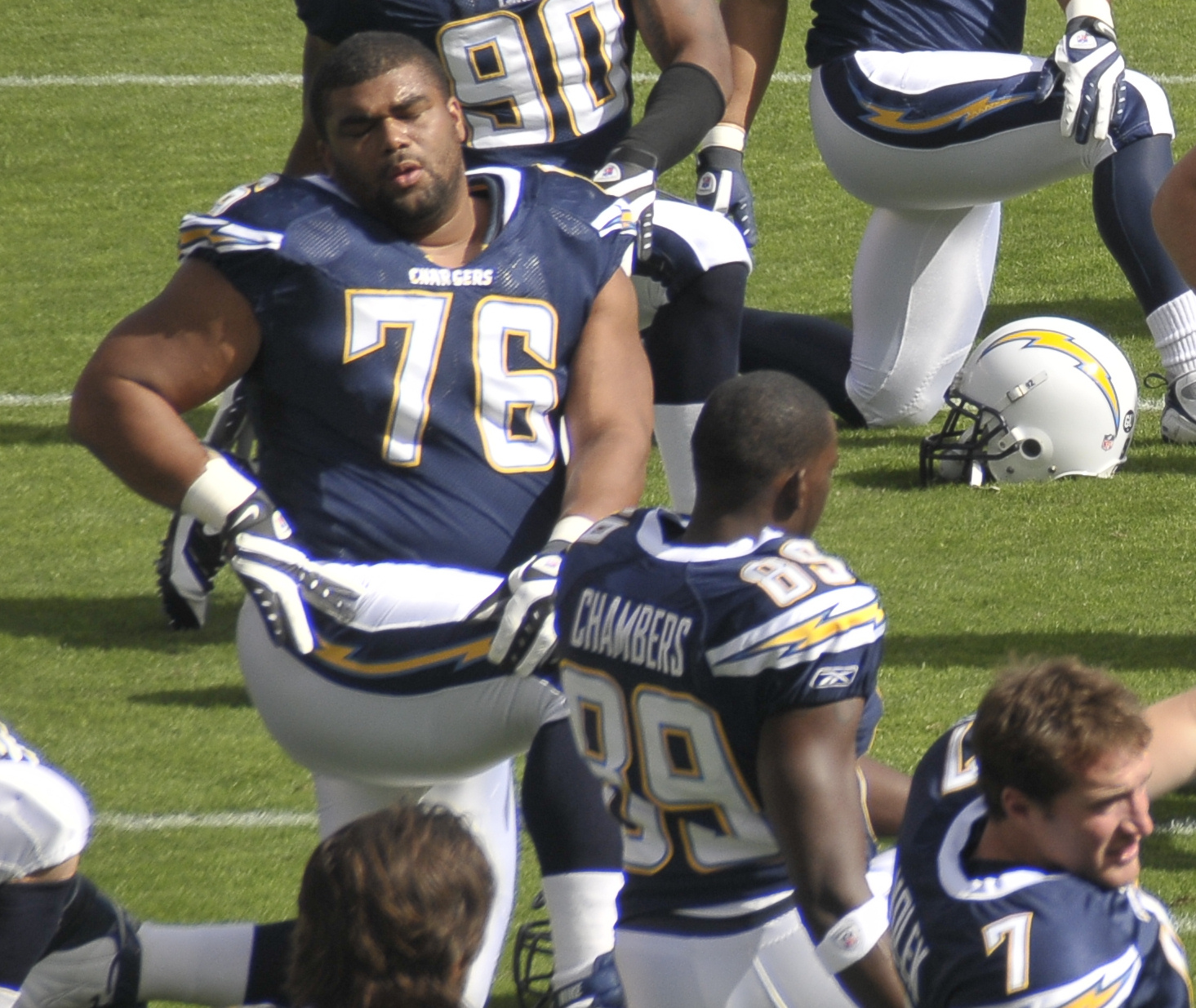 Jamal Williams doing pregame warmups before a November 9, 2008 game against the Kansas City Chiefs.